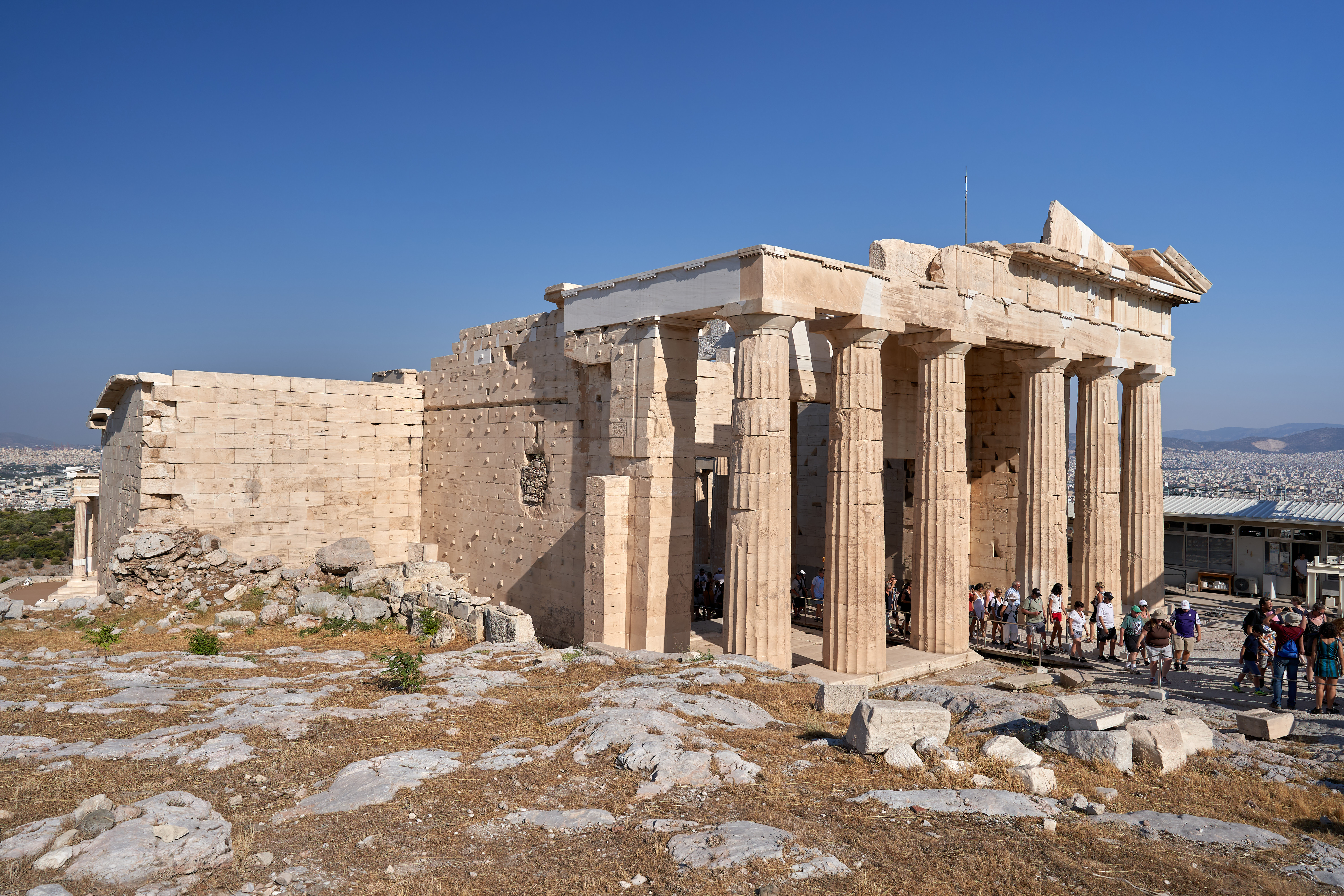 East Facade of the Propylaea on July 23, 2019.